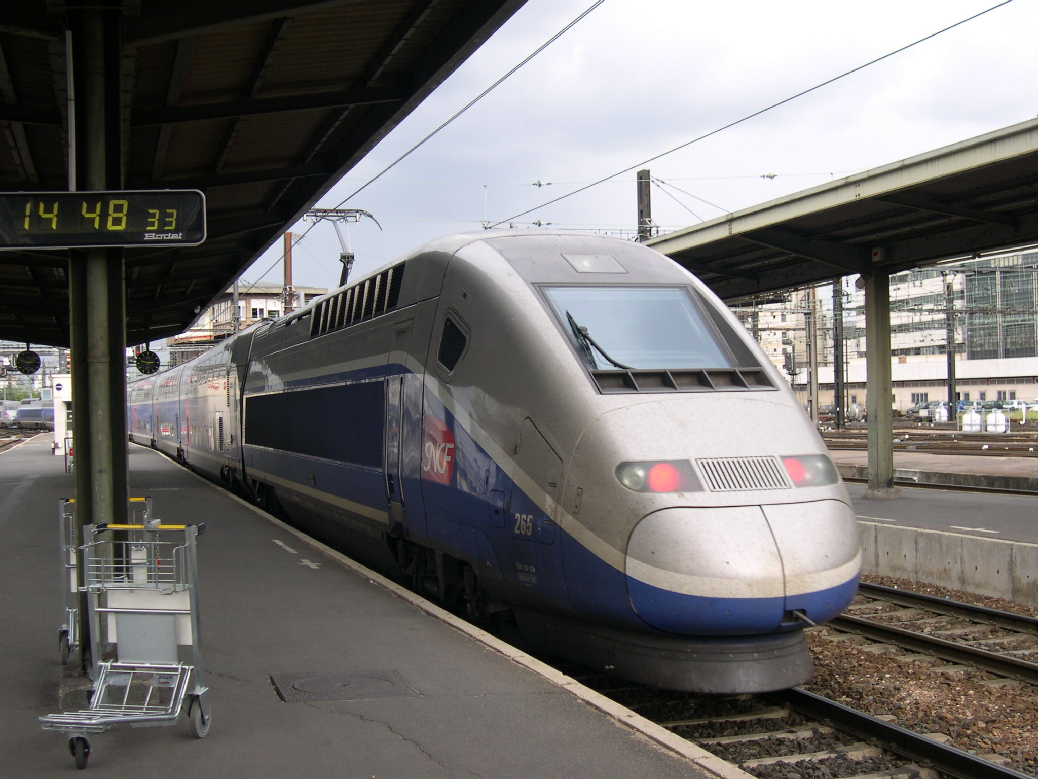 double-decker TGV leaving the Gare de Lyon of Paris